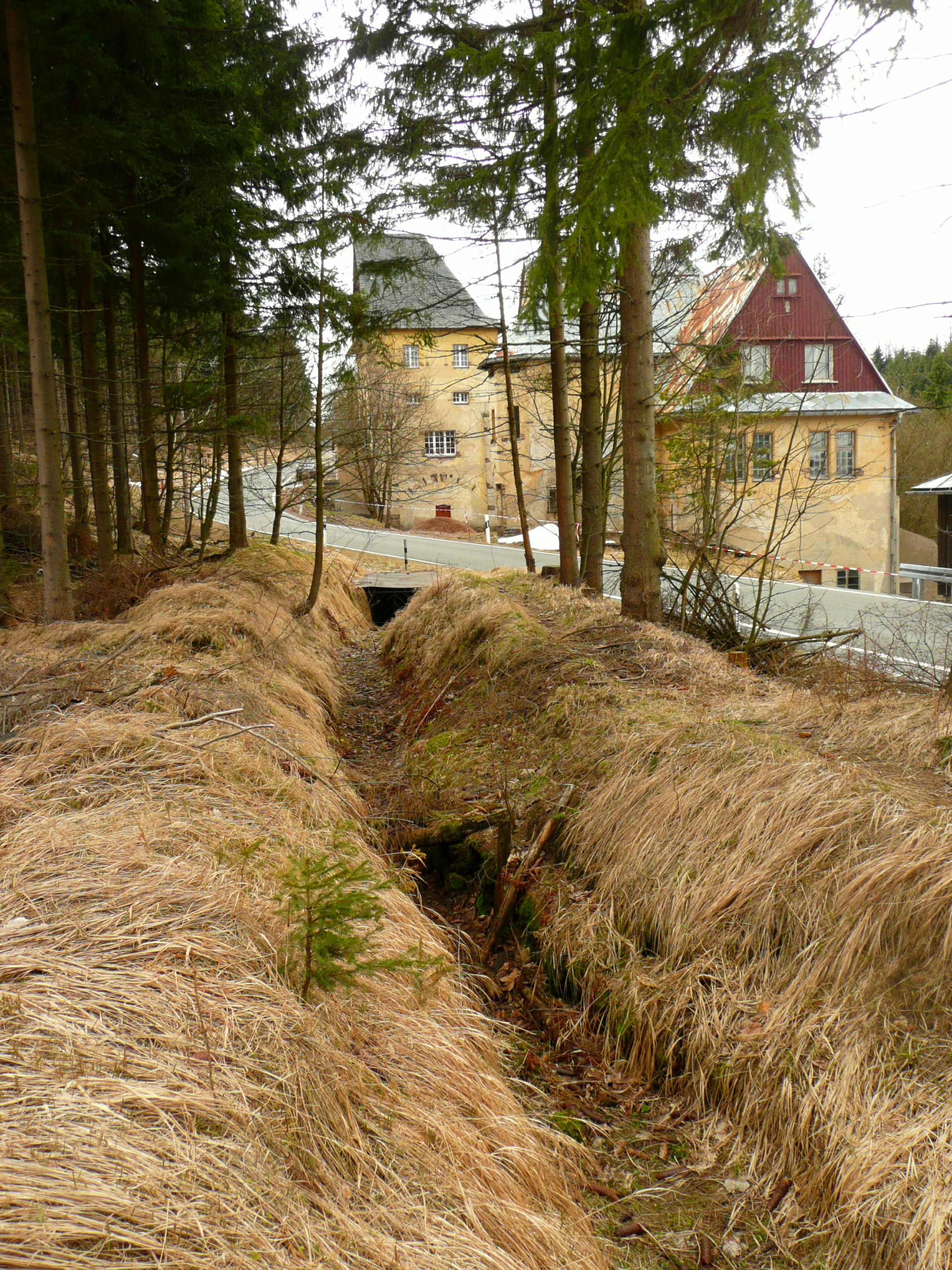 This image shows the Aschergraben near Zinnwald in the Ore Mountains. The Aschergraben was built from 1452 to 1458 to convey water to the tin mines in Altenberg.